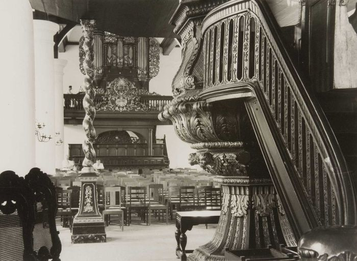 Interior of the 'Portugese Buitenkerk'